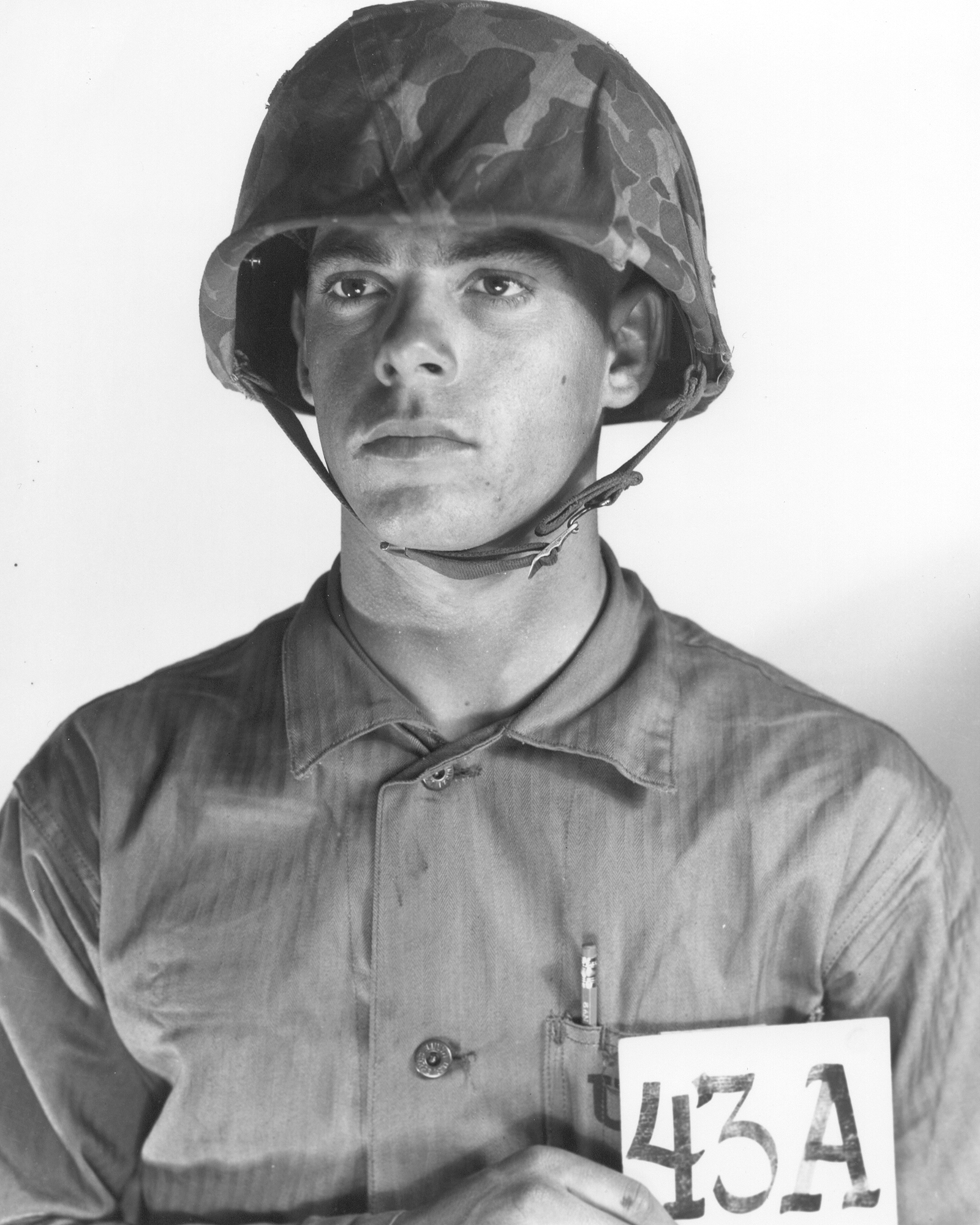 Daniel P. Matthews, USMC; killed in action during the Korean War in an heroic action for which he was posthumously awarded the Medal of Honor Author: United States Marine Corps Source: Official USMC biography URL: (accessed June 12, 2006)